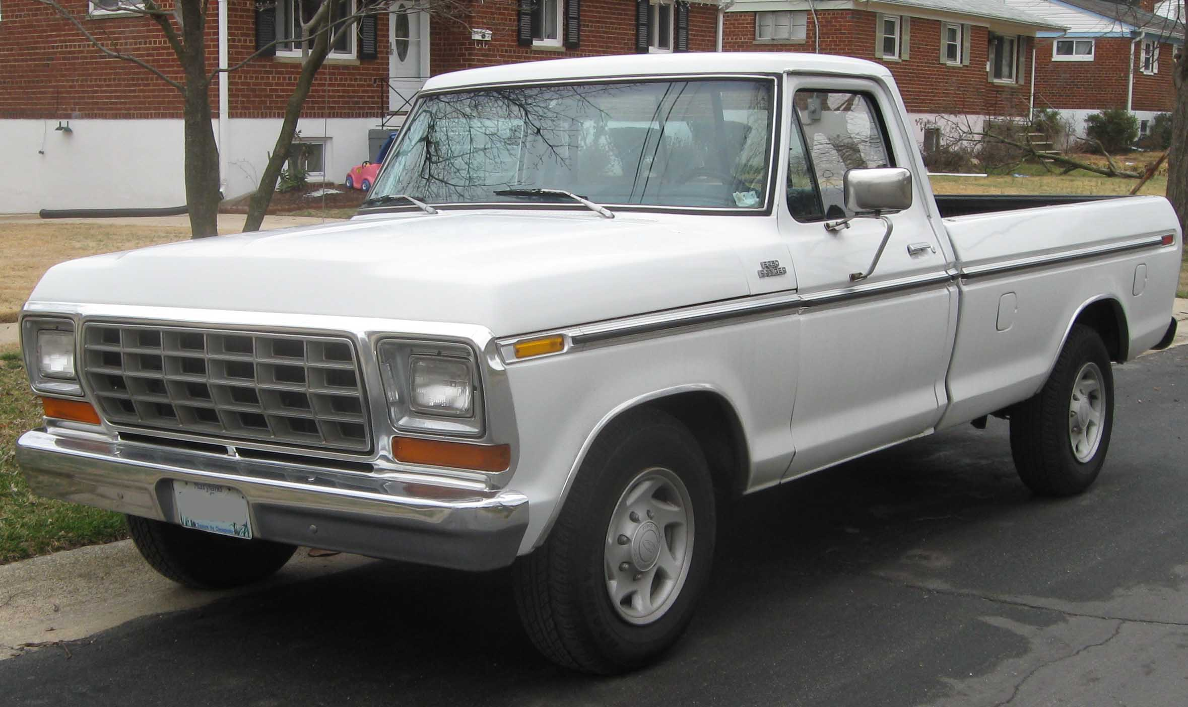 Ford F-250 photographed in Rockville, Maryland, USA.